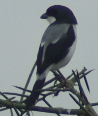 Adult Taita Fiscal, Lanius dorsalis, Amboseli National Park, Kenya. The time stamp is 10 hours too early.